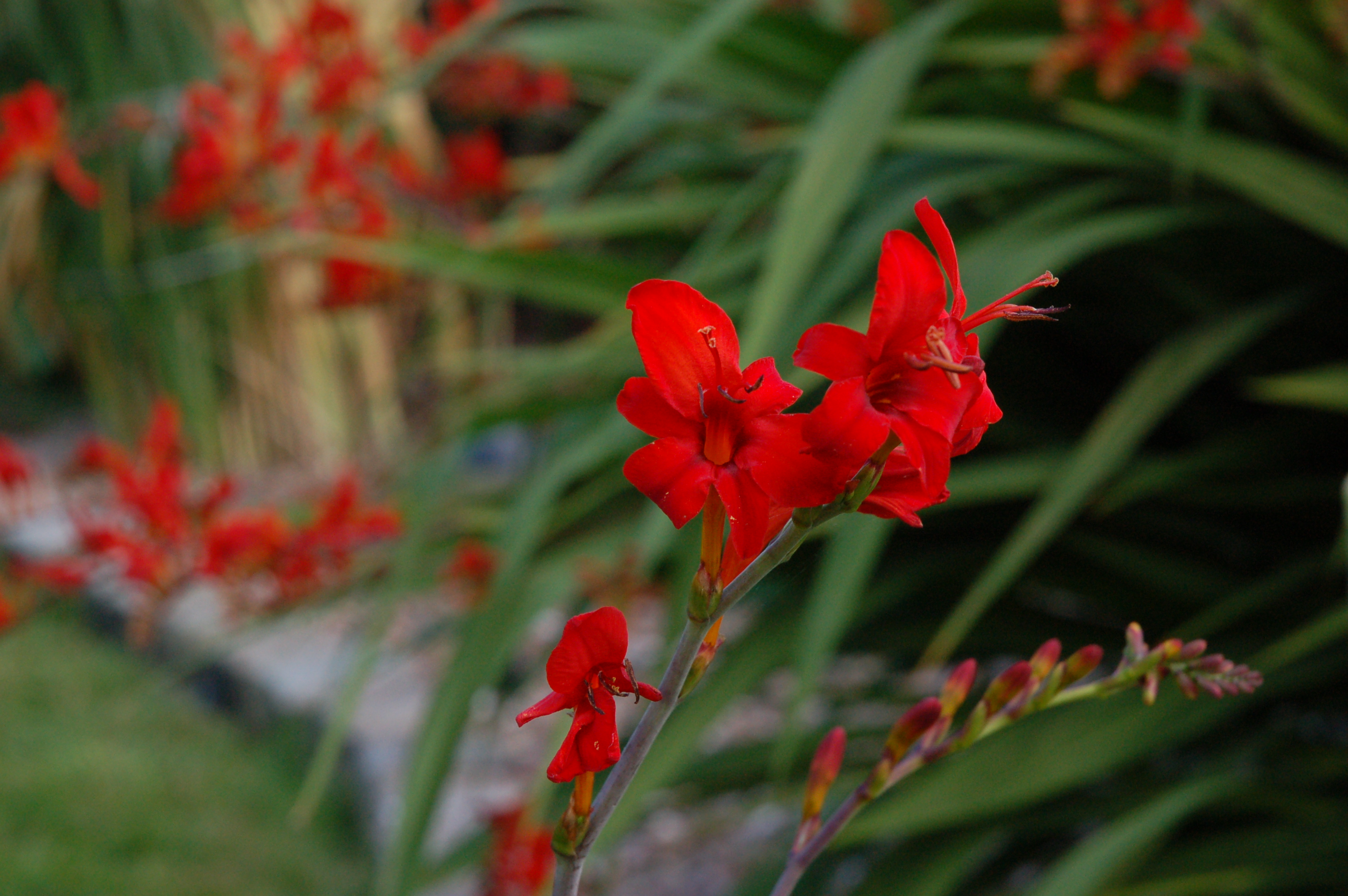 Red Flowers